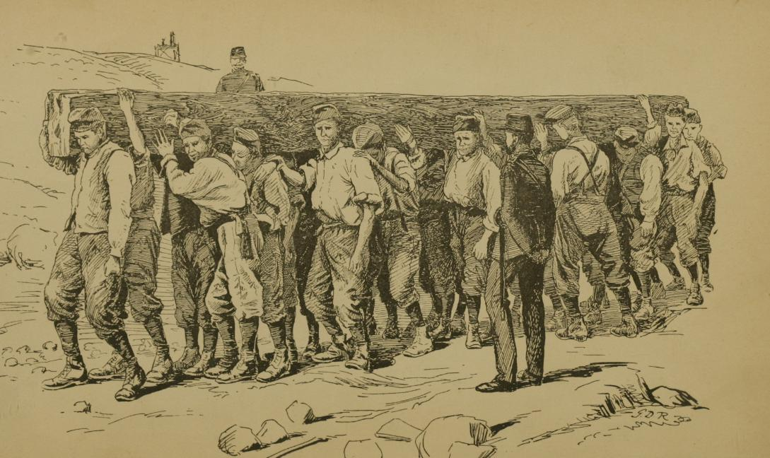 Book illustration of prison life